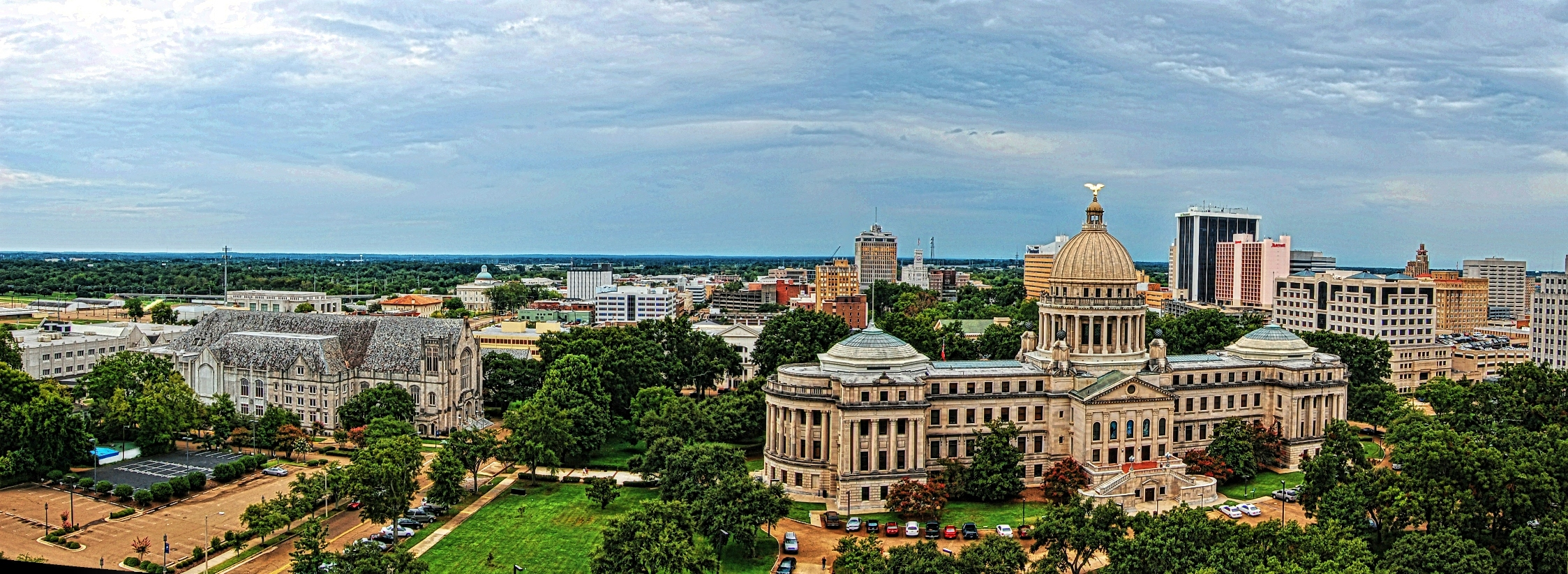 Two shots of downtown Jackson, Mississippi taken from the 11th floor of the Walter Sillers Building. The building in the right foreground is the "New Capitol" and in the left foreground is First Baptist Church, Jackson. The green dome of the Old Capitol can be seen in the background in the left third.